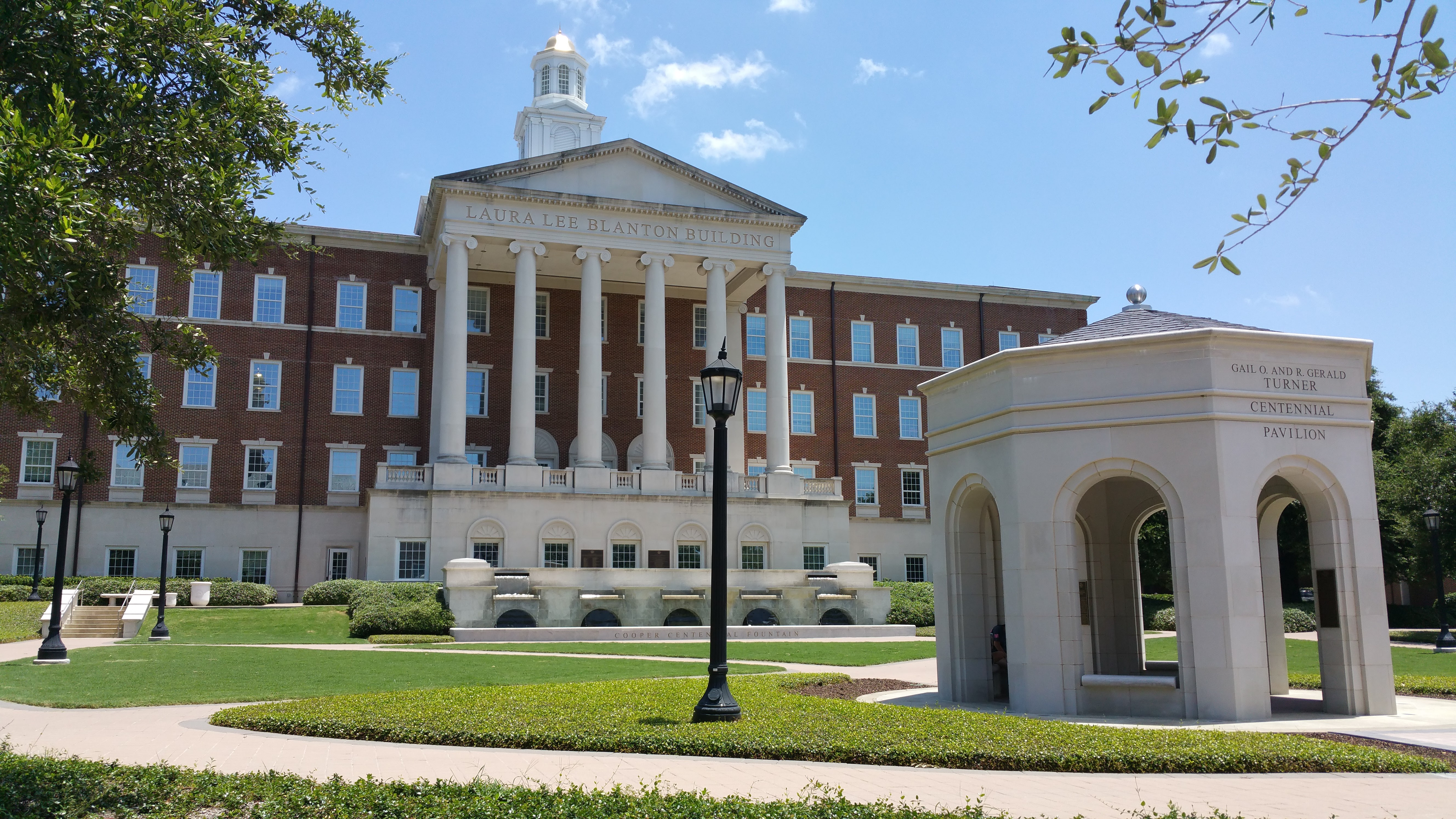 Laura Lee Blanton Building, the student administrative services building at Southern Methodist University